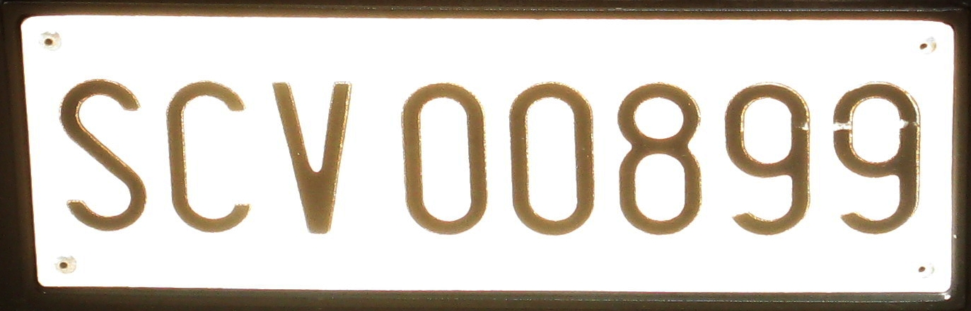 Photo of a vehicle registration plate for official vehicles of the Vatican City State. Resident plates use the "CV" designation while official vehicles use the "SCV" designation.